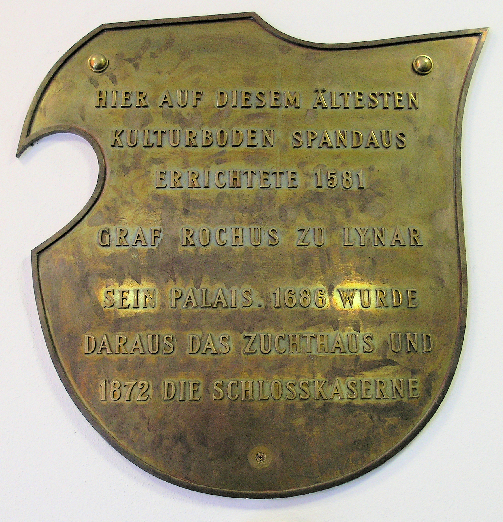 Memorial plaque, Rochus zu Lynar, Carl-Schurz-Straße 35, Berlin-Spandau, Germany Koordinate:52°32′14″N 13°12′11″E / 52.53722°N 13.20306°E